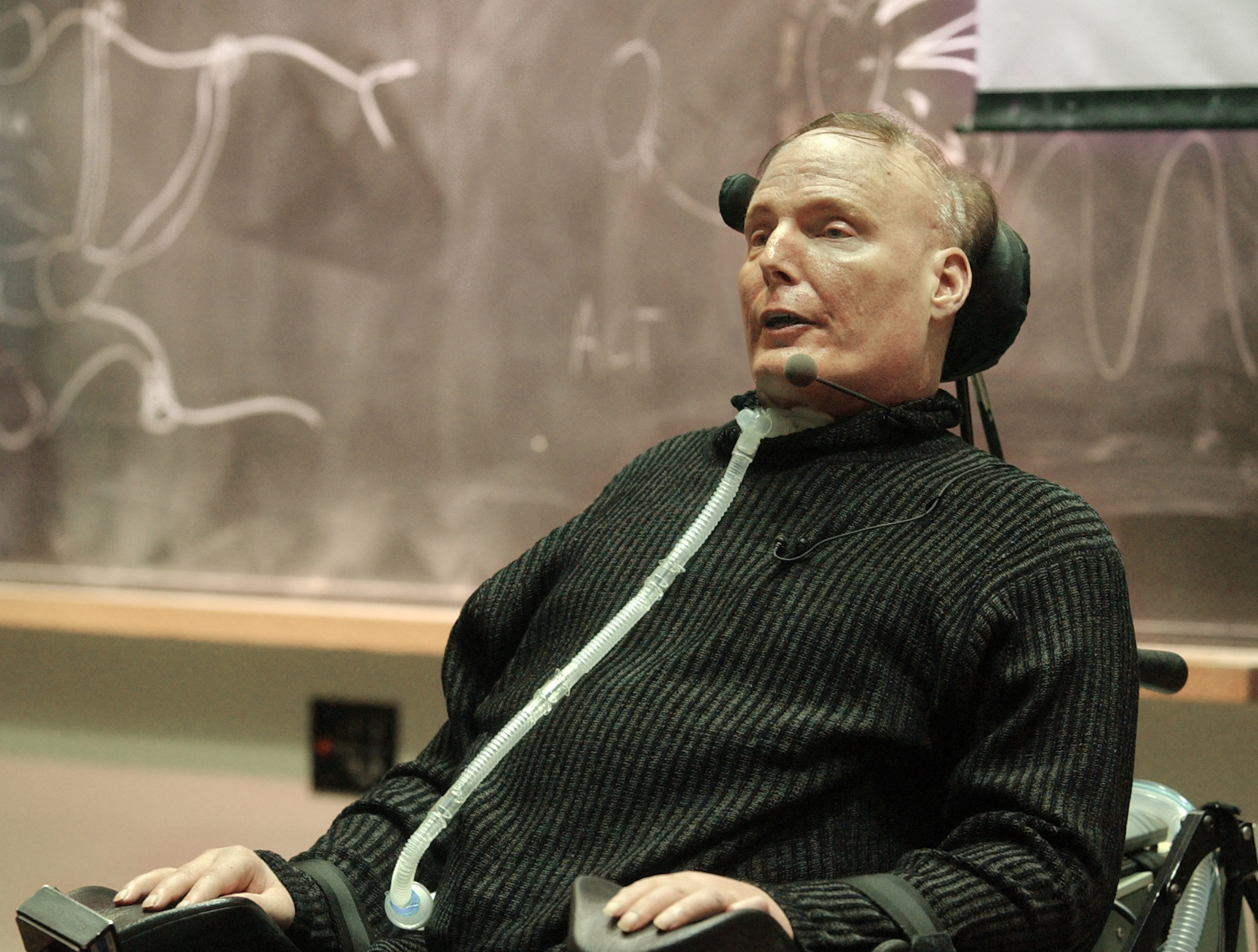 Christopher Reeve discusses the potential benefits of stem cell research at a neuroscience conference at MIT.